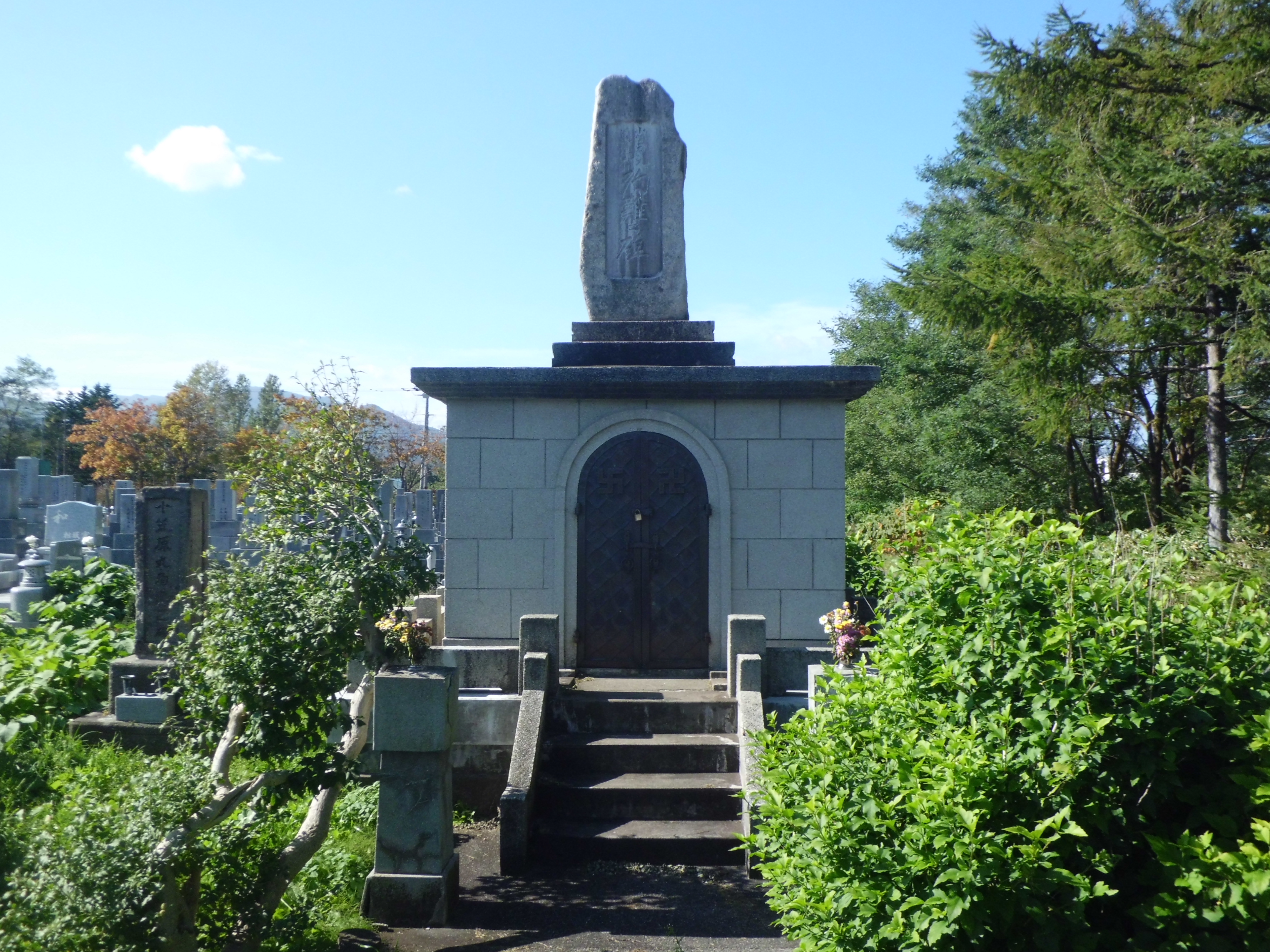 Monument to Suffering of Ogasawara-maru